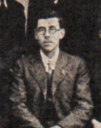 Jan Jelinek, war veteran